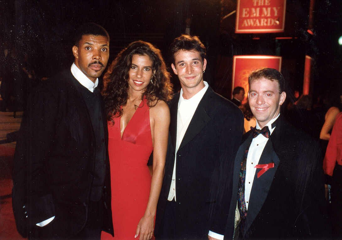 Cast members from E.R. - Eriq La Salle (left) and Noah Wyle (3rd from left), with Angela Johnson and Eric Van Danen after the 1995 Emmy Awards telecast - September 10, 1995.